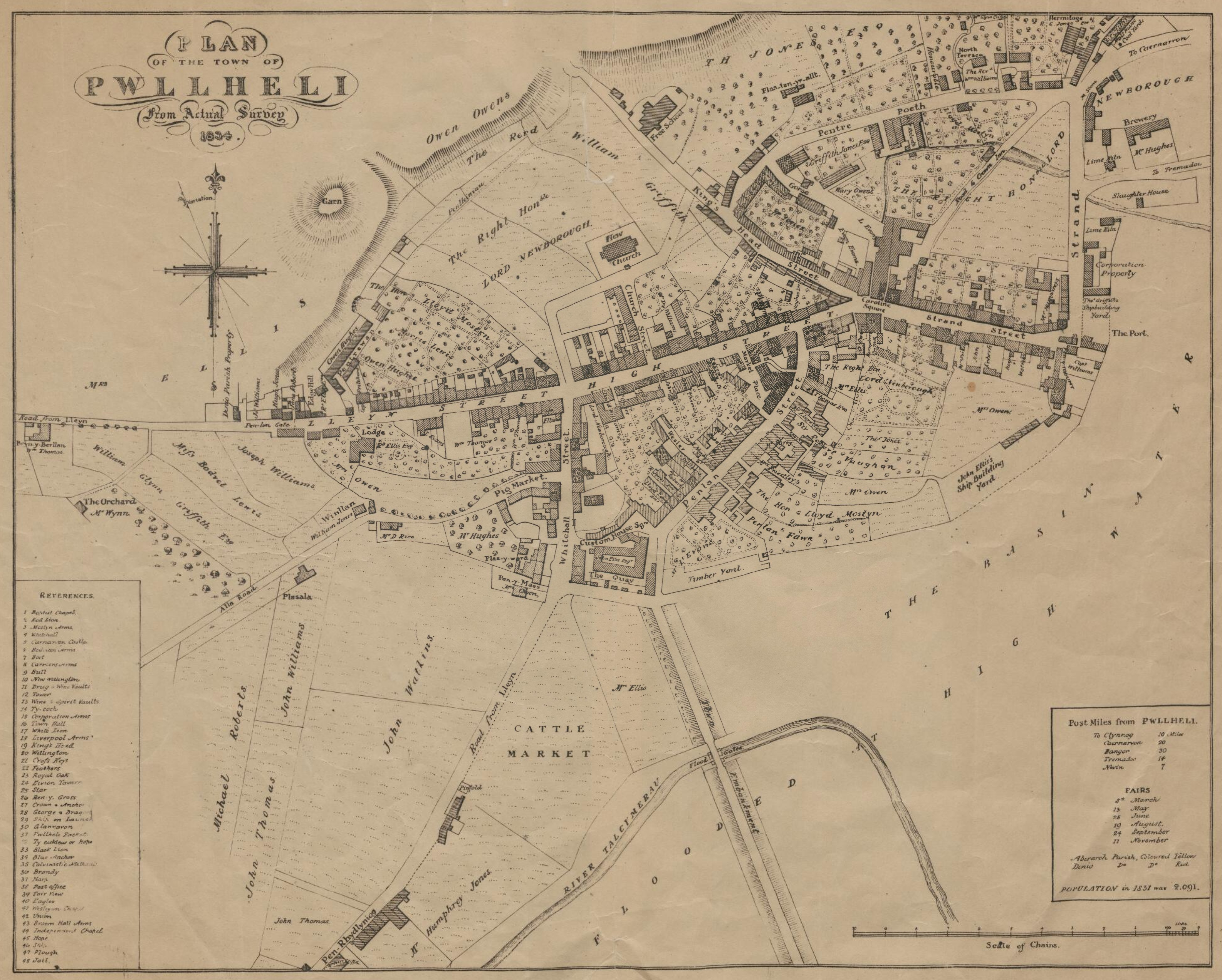 This plan of Pwllheli is a reduced copy of an original Wood plan.